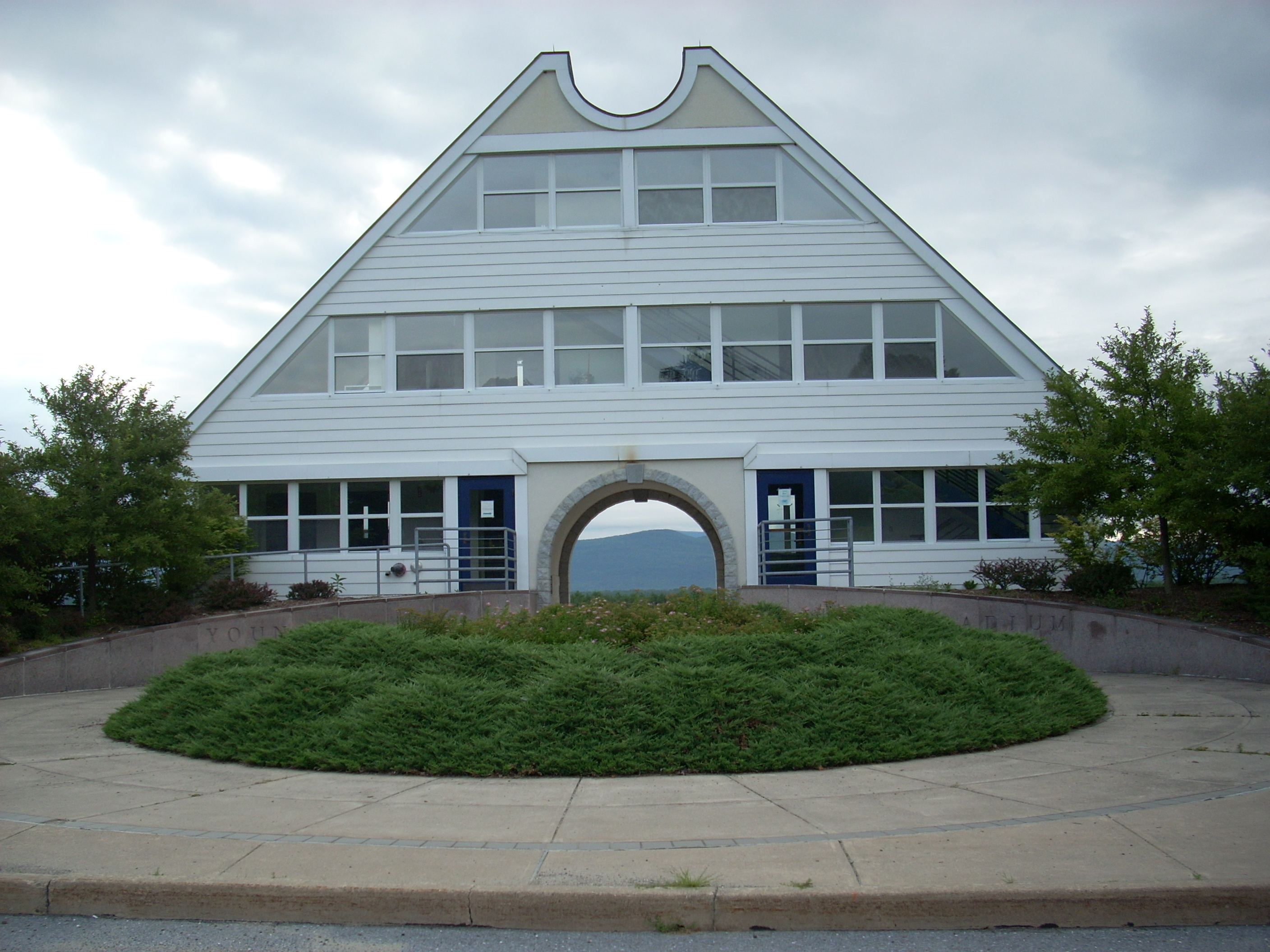 The entrance to Youngman Field at Alumni Stadium at Middlebury College in Middlebury, Vermont, USA.